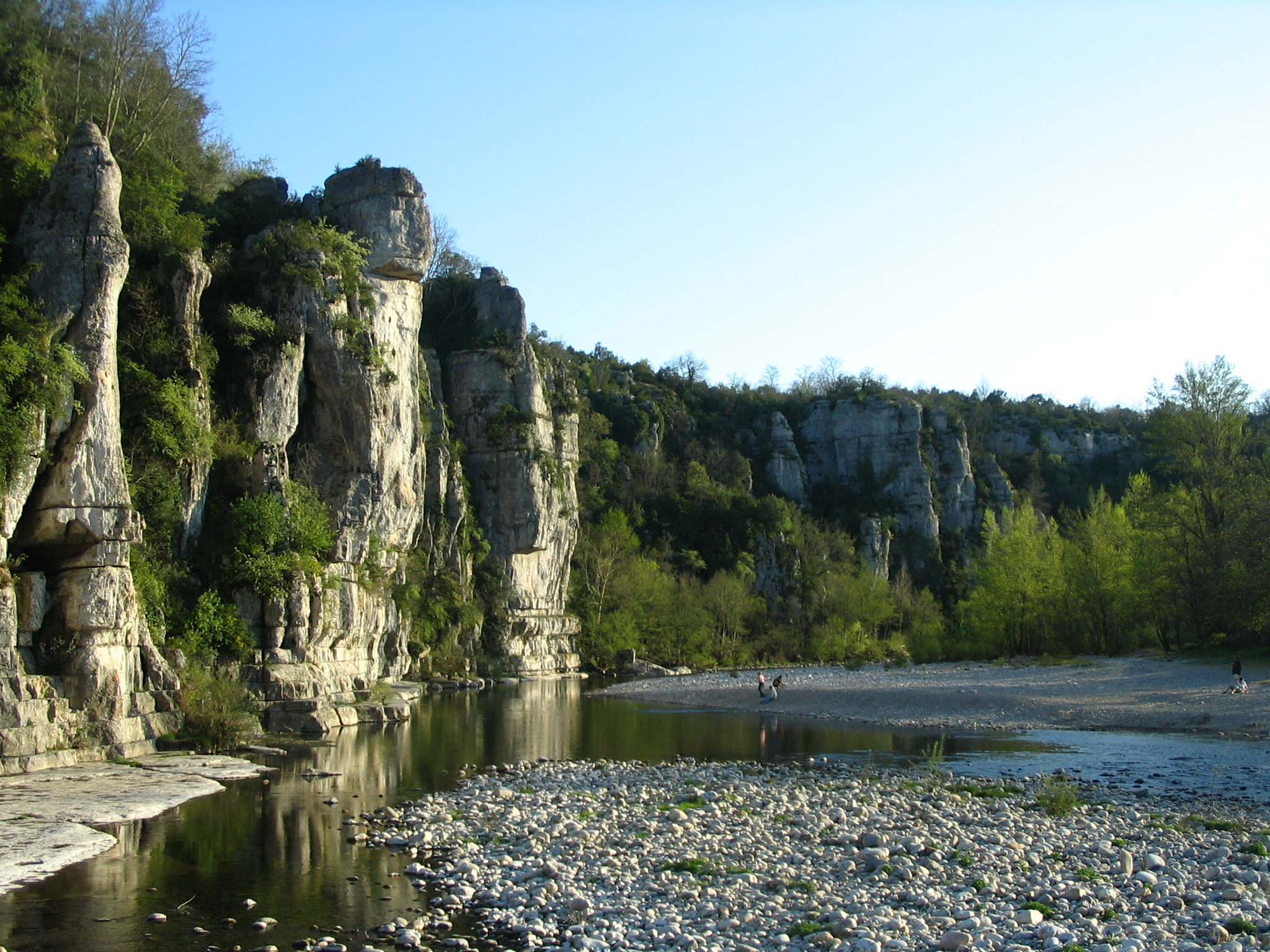 River Beaume in the Ardèche Region, France